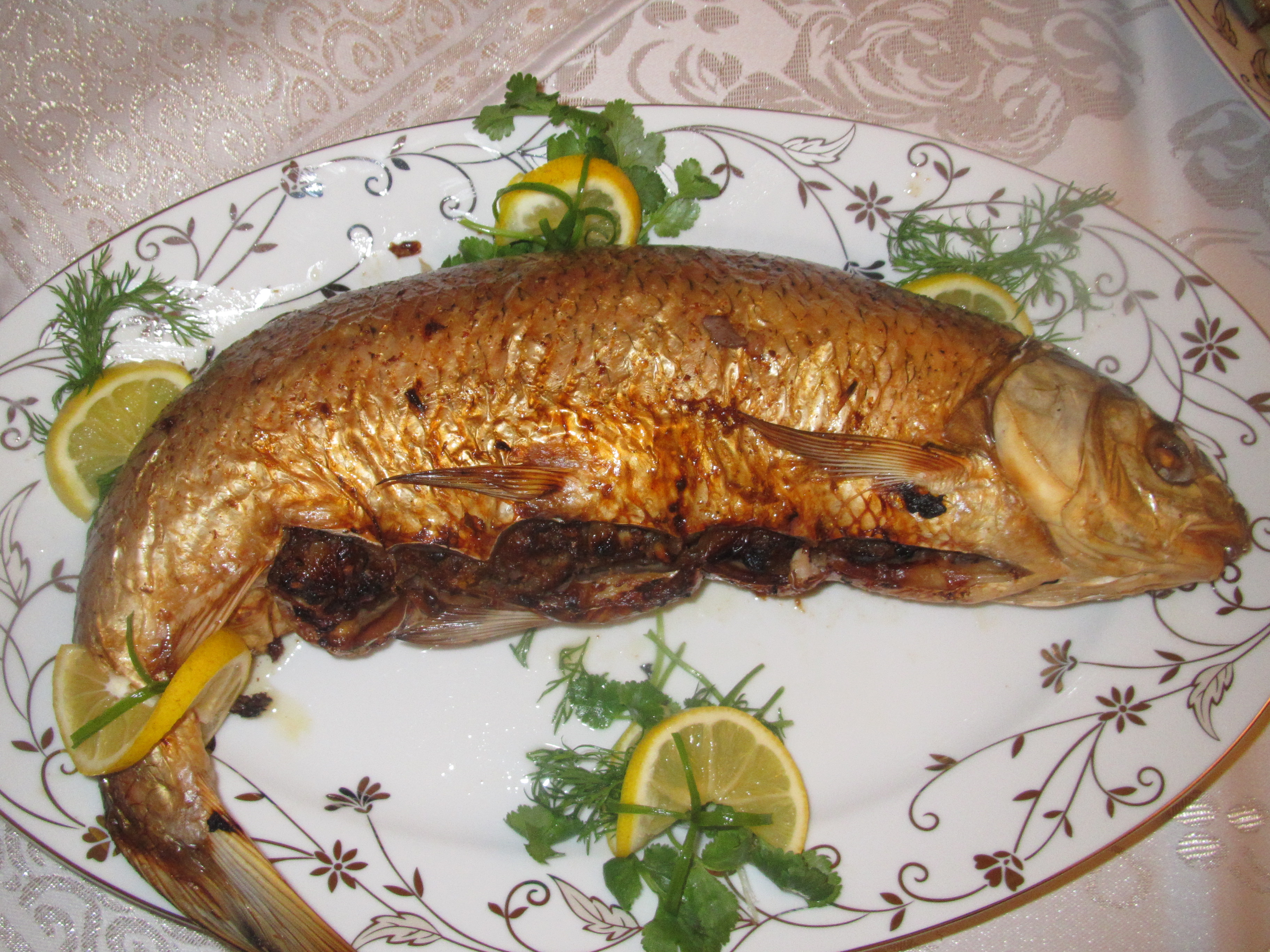 Levengi is essentially a stuffing made from onions, walnuts, raisins, albukhara and alcha seasoning and is used to stuff both poultry and fish.